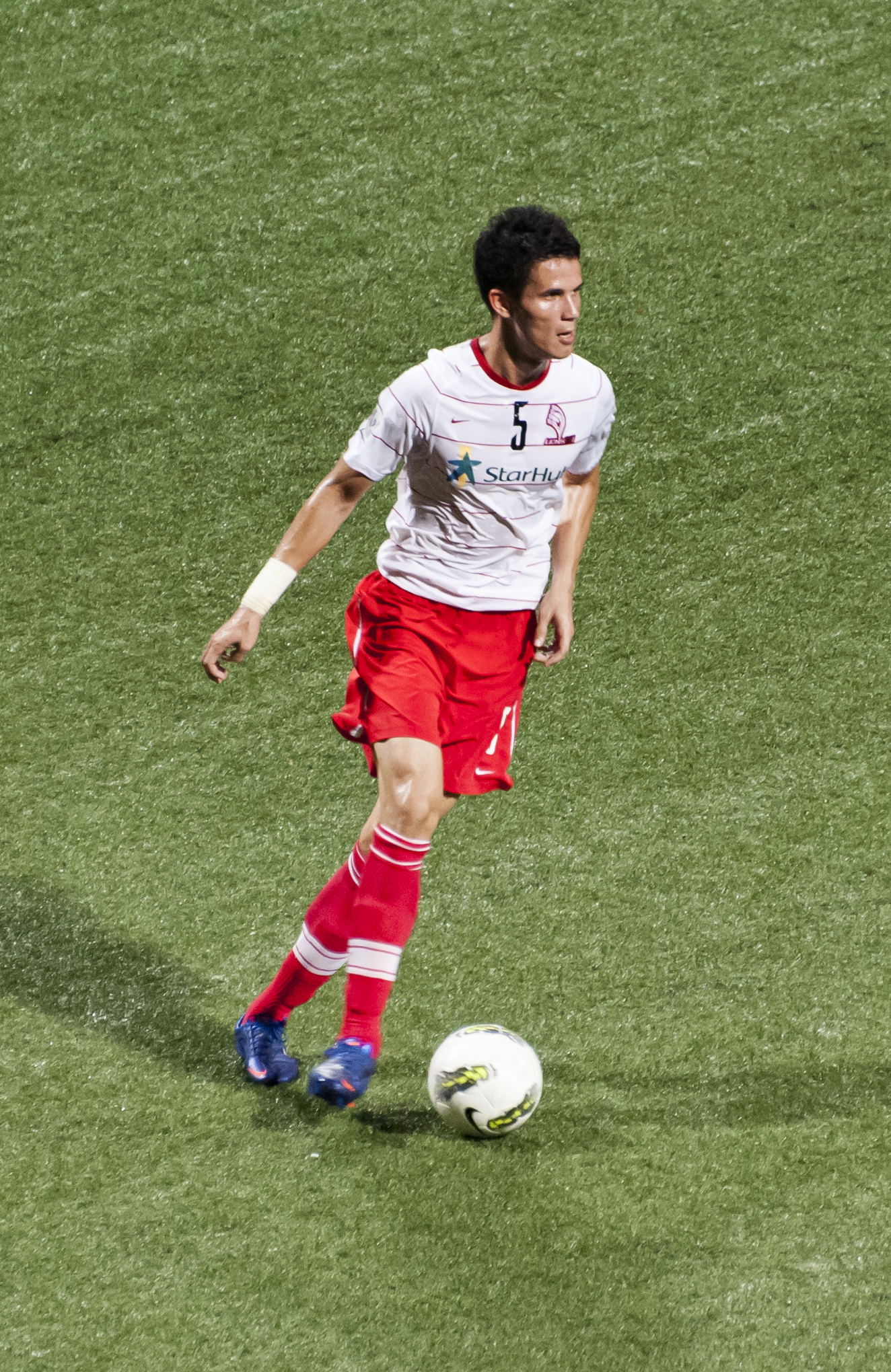 baihakki kahizan 2012 lionsxii jalan besar malaysia super league kuala lumpur fa